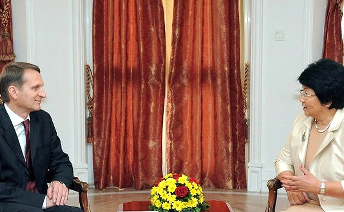 Chief of Staff of the Presidential Executive Office Sergei Naryshkin’s working visit to the Kyrgyz Republic